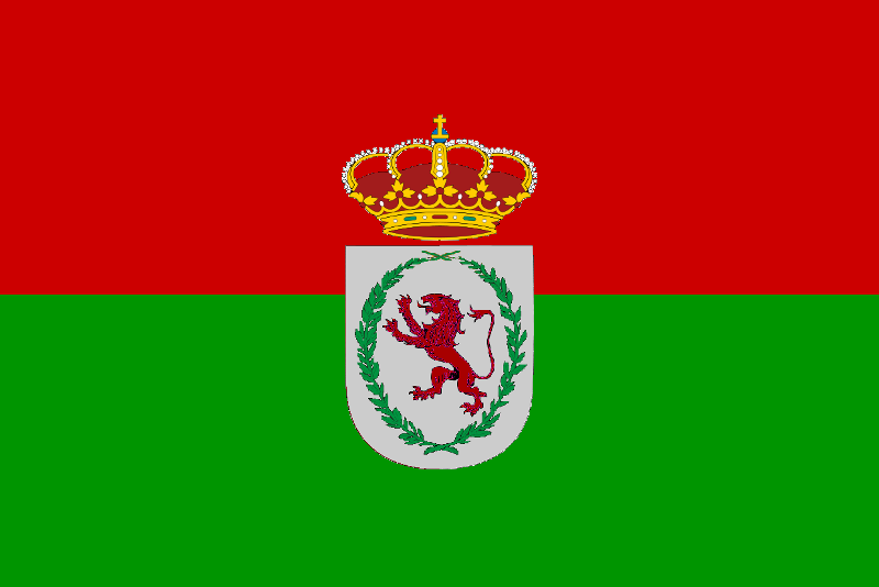 Coslada flag.